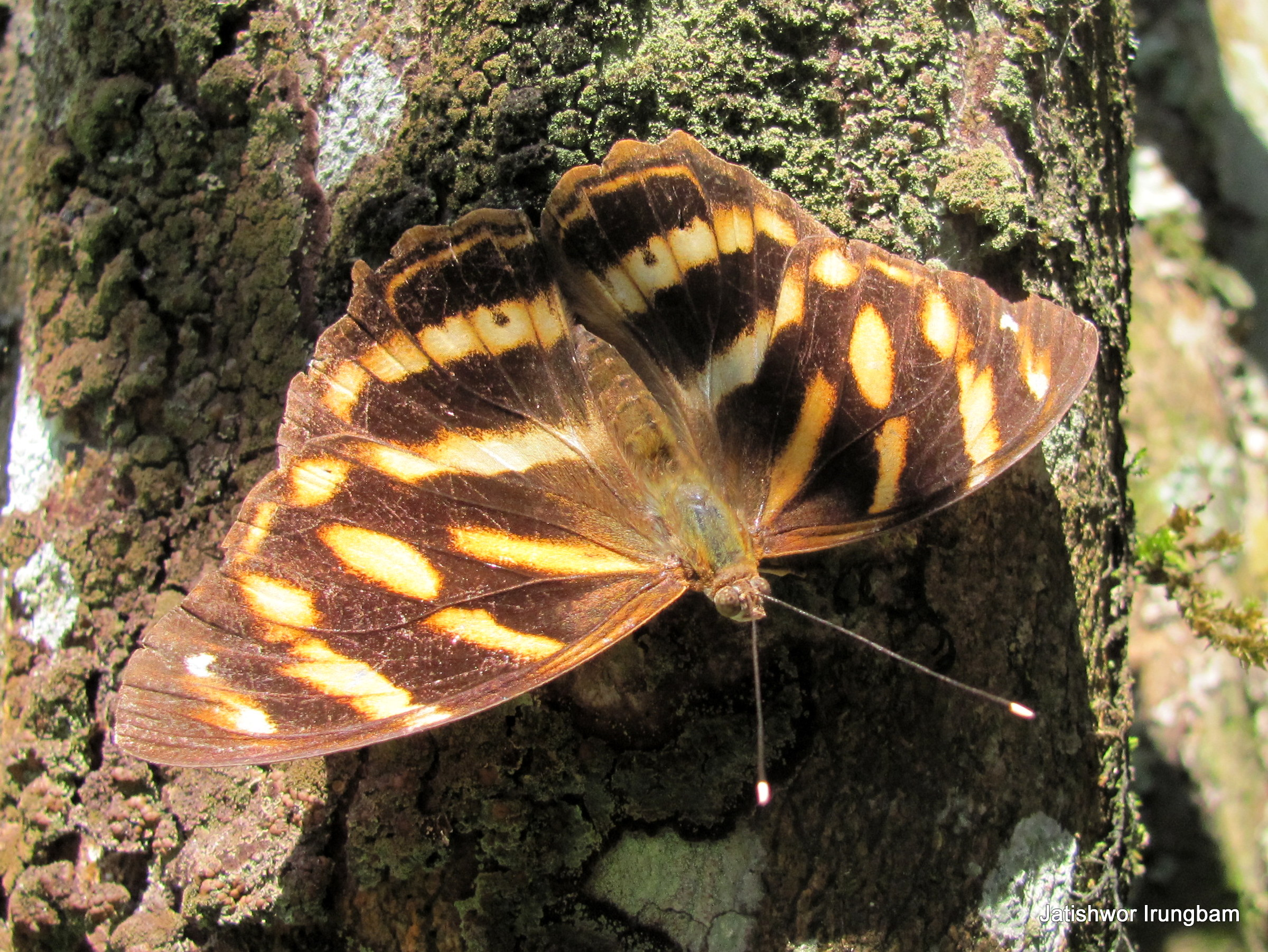 Herona marathus Doubleday, 1848, family Nymphalidae